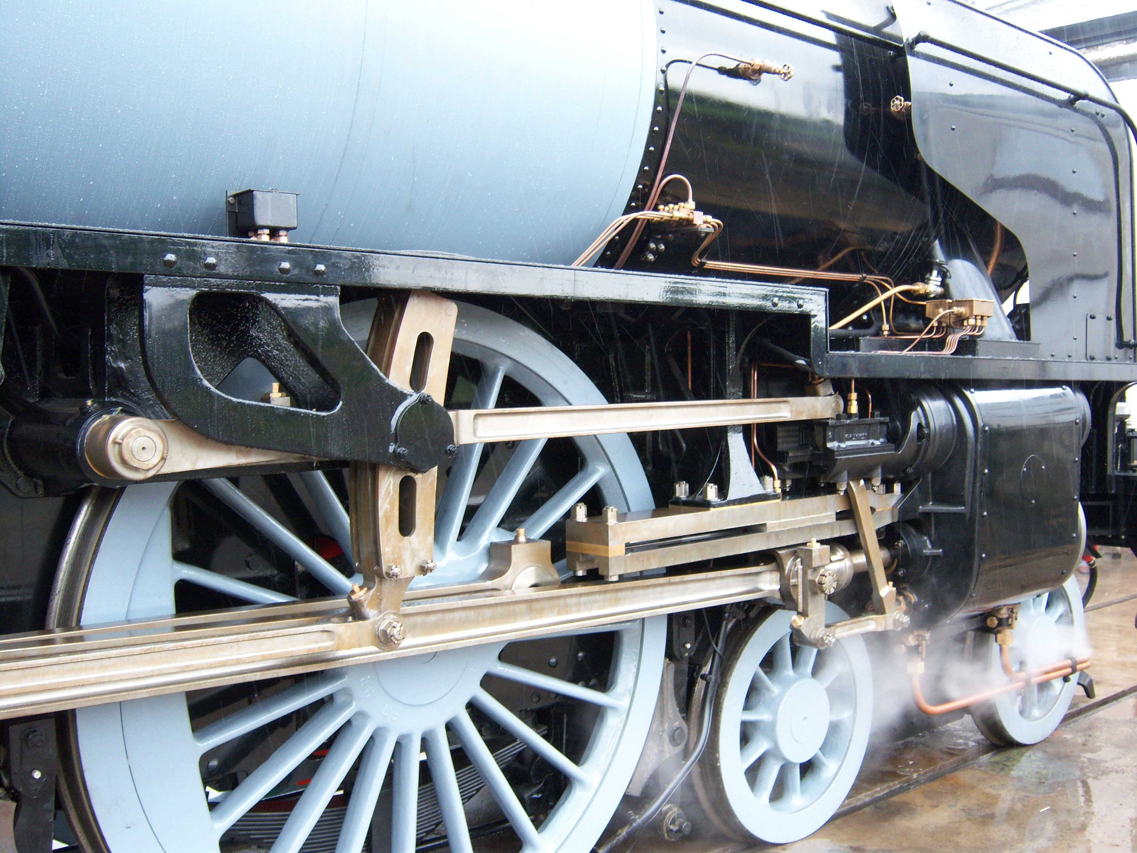 60163 Tornado valve gear right hand side